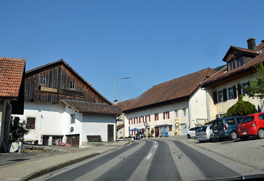 Route de Diesse, the main street of Lamboing, seen in the direction of Diesse, roughly westward.